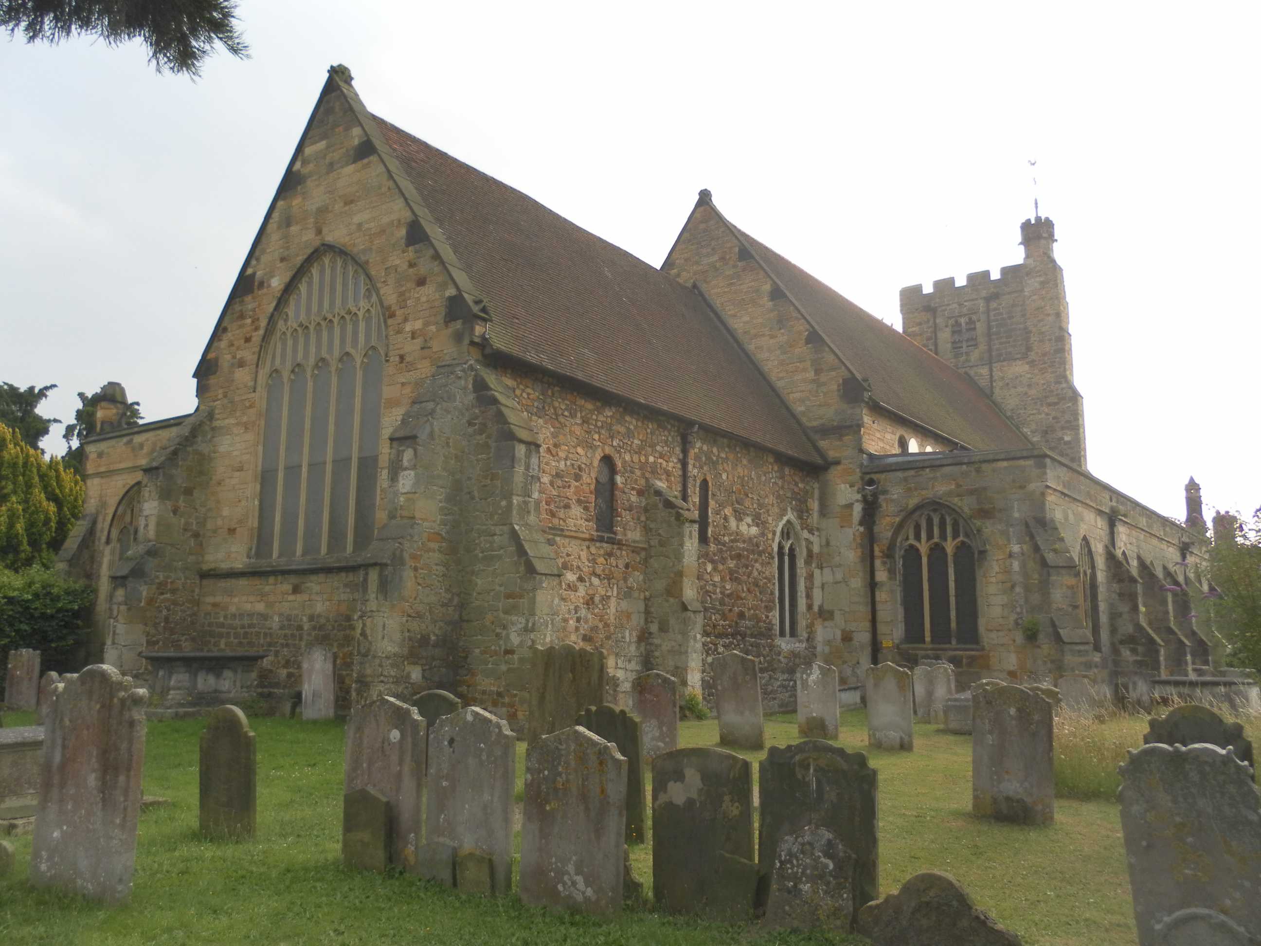 St Peter and St Paul's Church, Church Lane, Tonbridge, Borough of Tonbridge and Malling, Kent, England. The ancient parish church of the town of Tonbridge. Listed at Grade II* by English Heritage (NHLE Code 1120884)